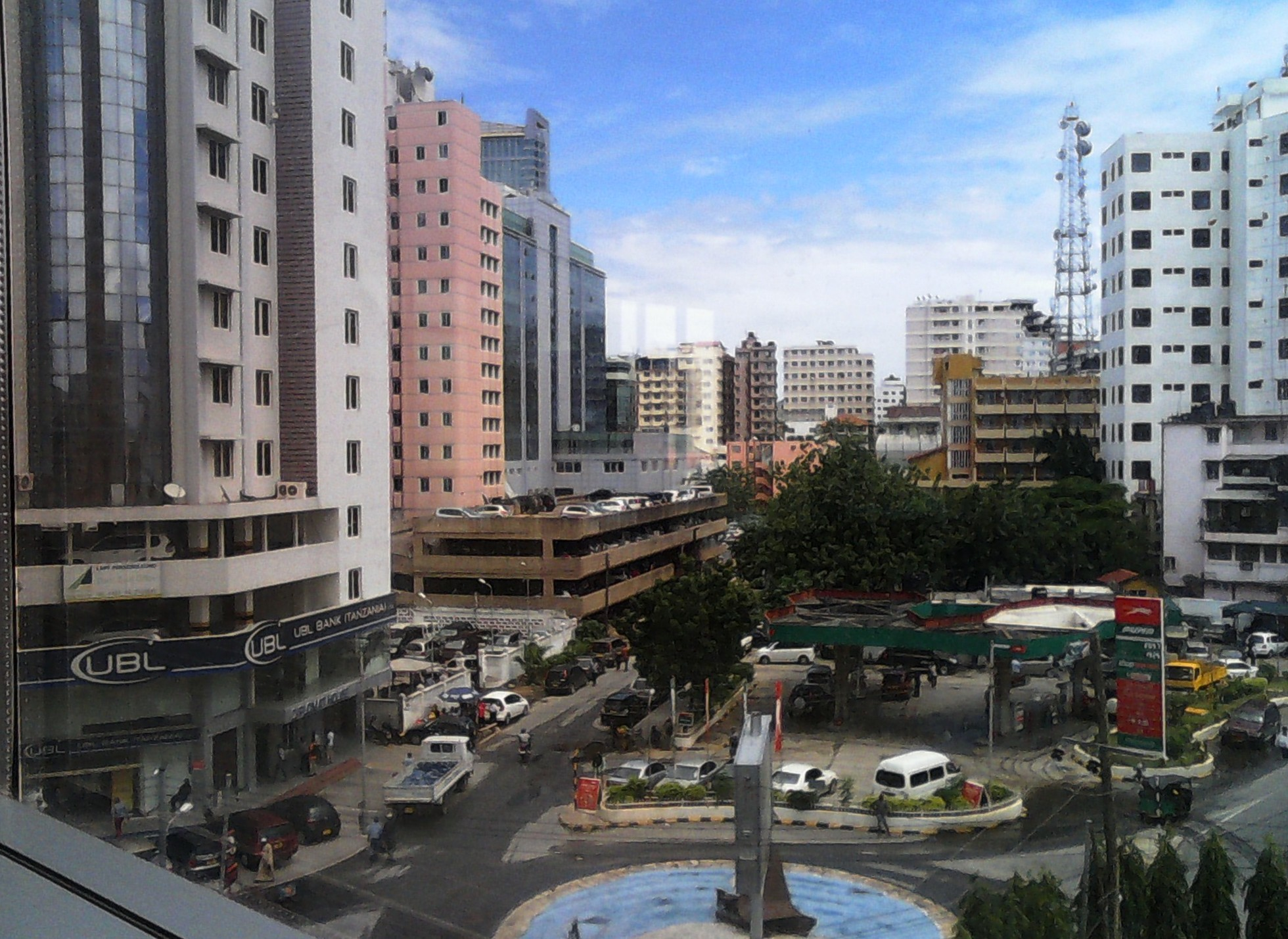 Dar es Salaam Central Business District. Tanzania, East Africa. This is an image of "African people at work" from Tanzania